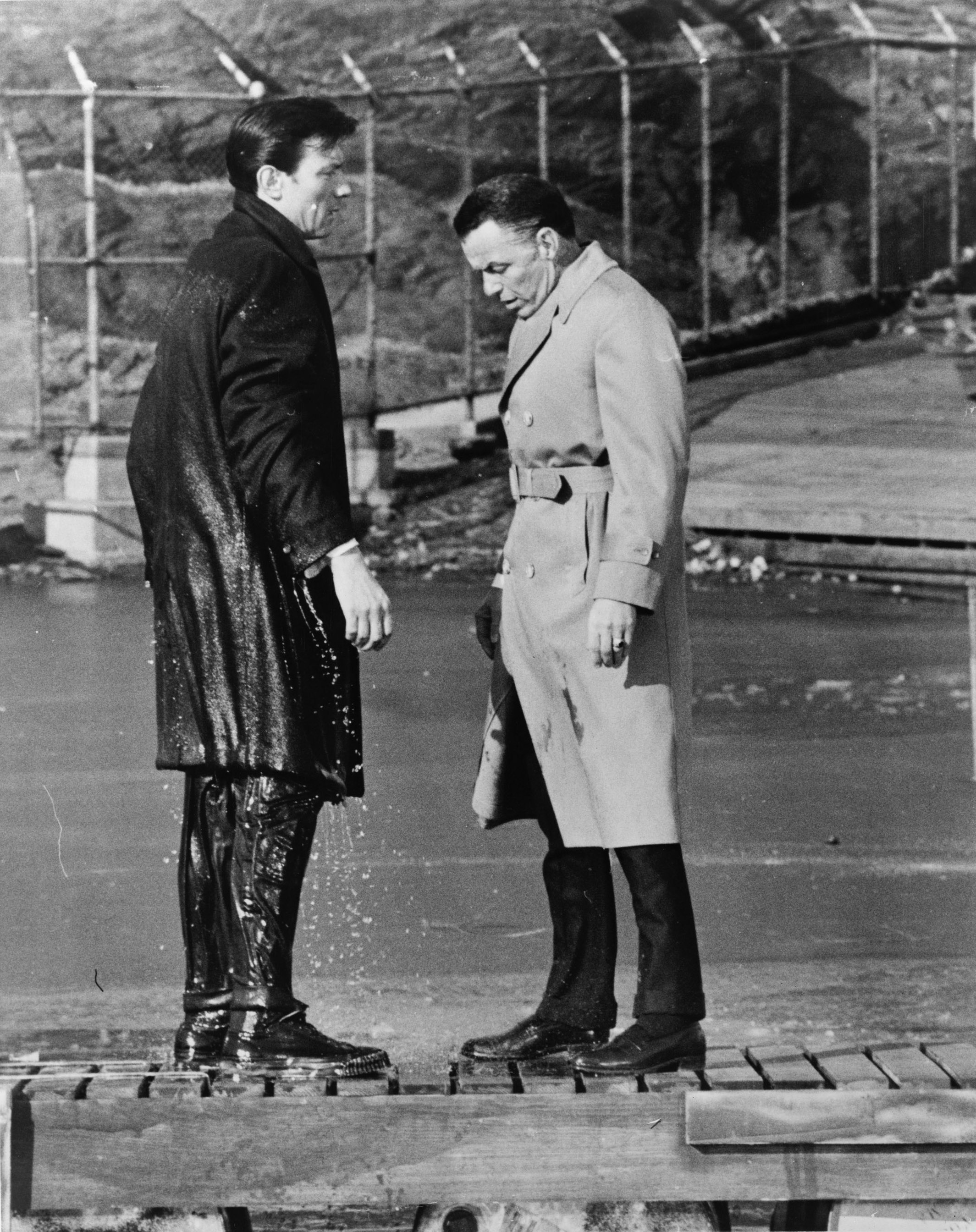 Laurence Harvey (left) and Frank Sinatra (right) filming a scene from The Manchurian Candidate in Central Park, New York. Harvey just walked off the pier.